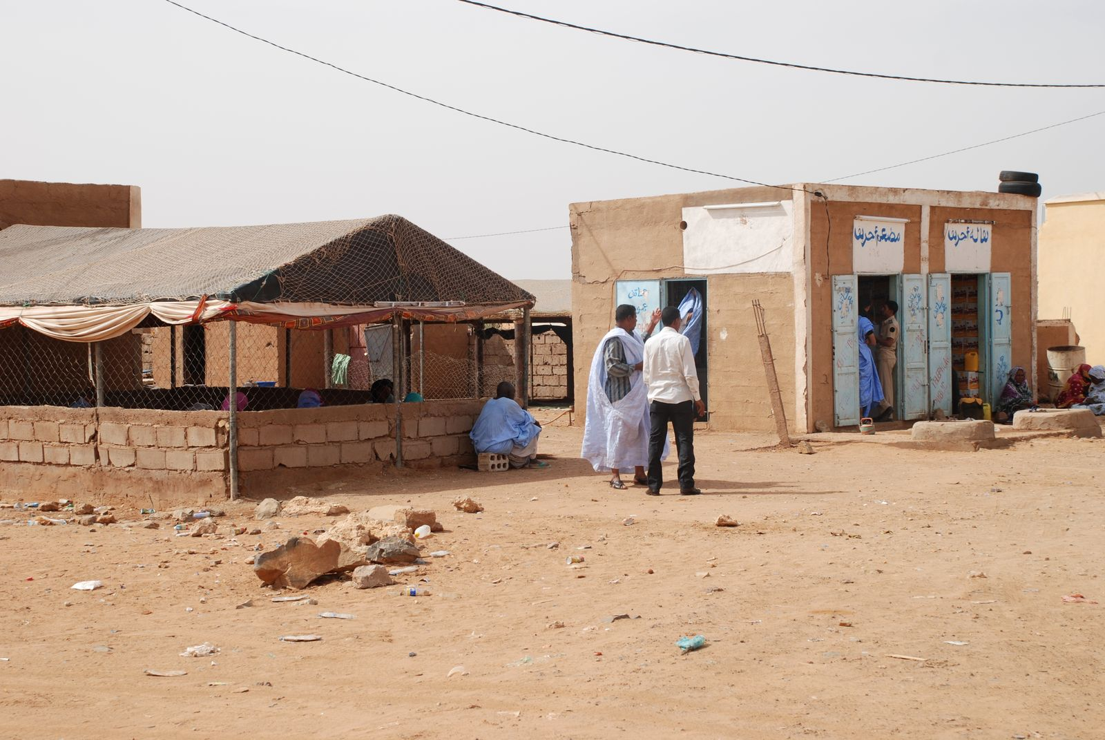 Akjoujt, Mauritania, rest area